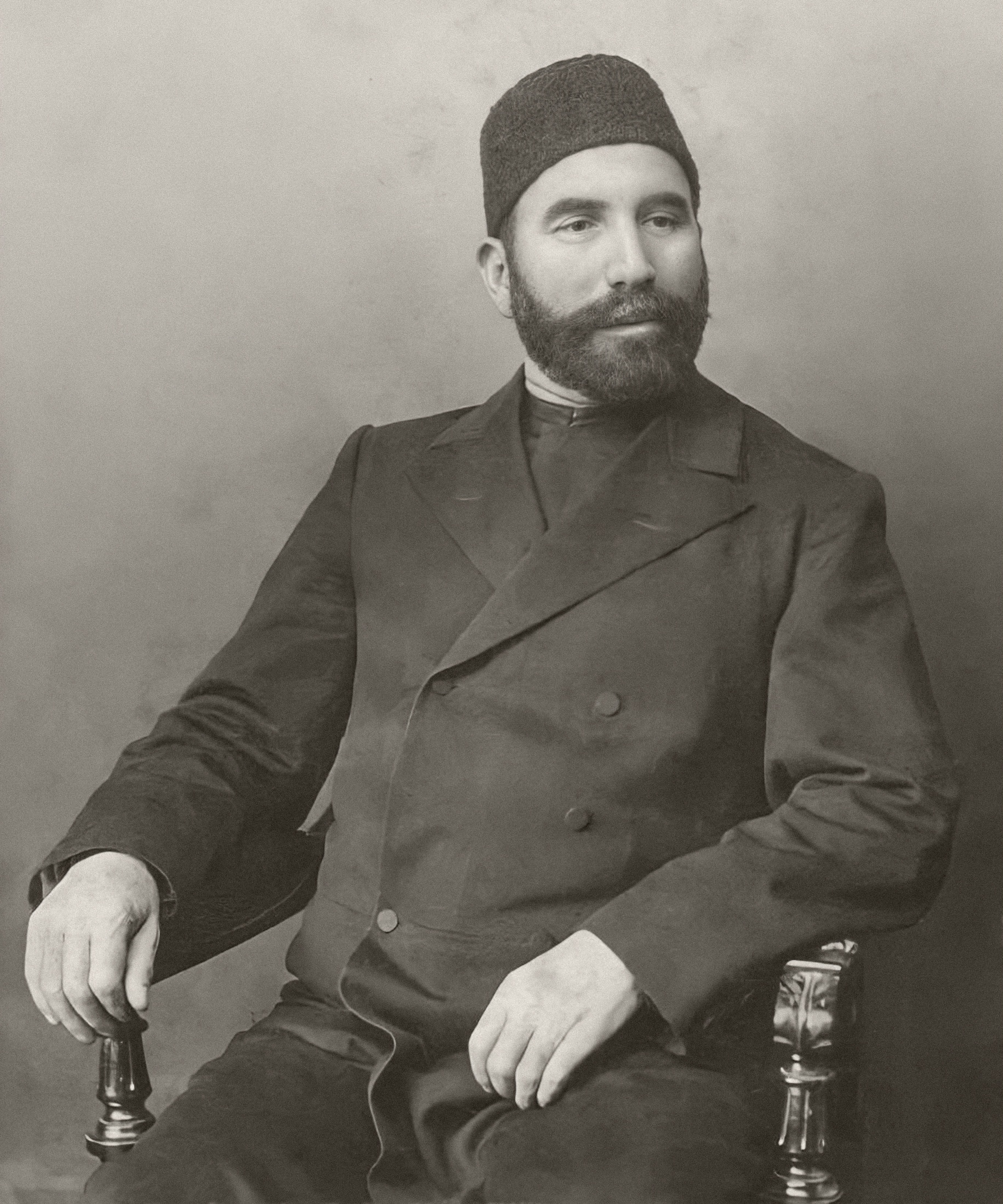 Haji Zeynalabdin Taghiyev